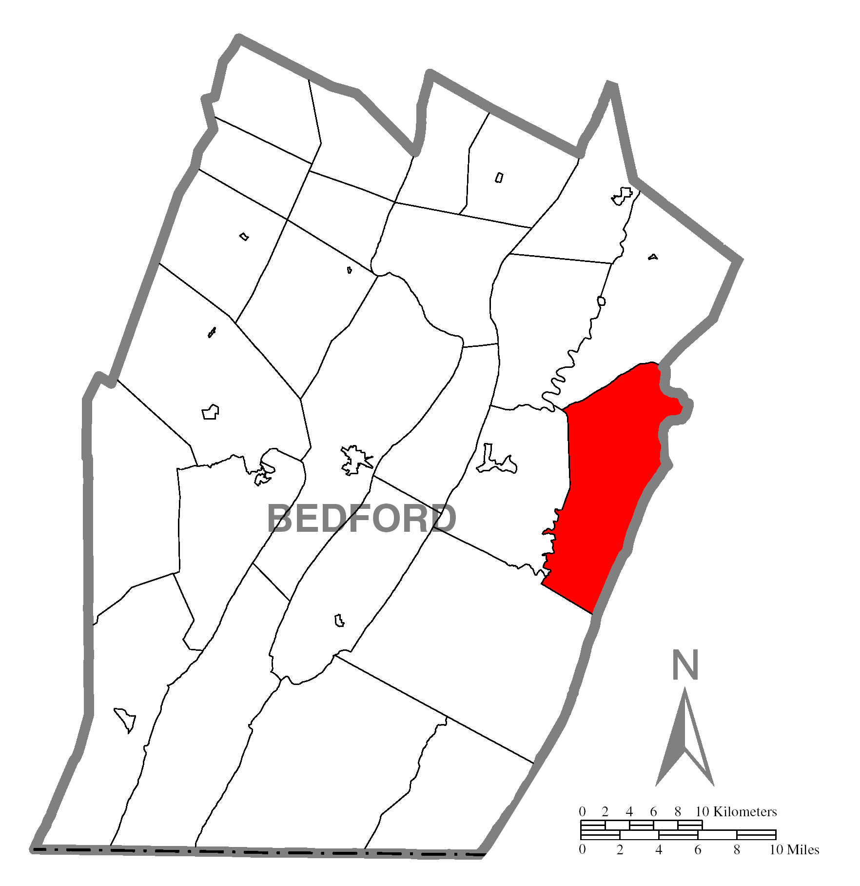 A map of Bedford County showing East Providence Township, Pennsylvania (alternate) highlighted on the map.